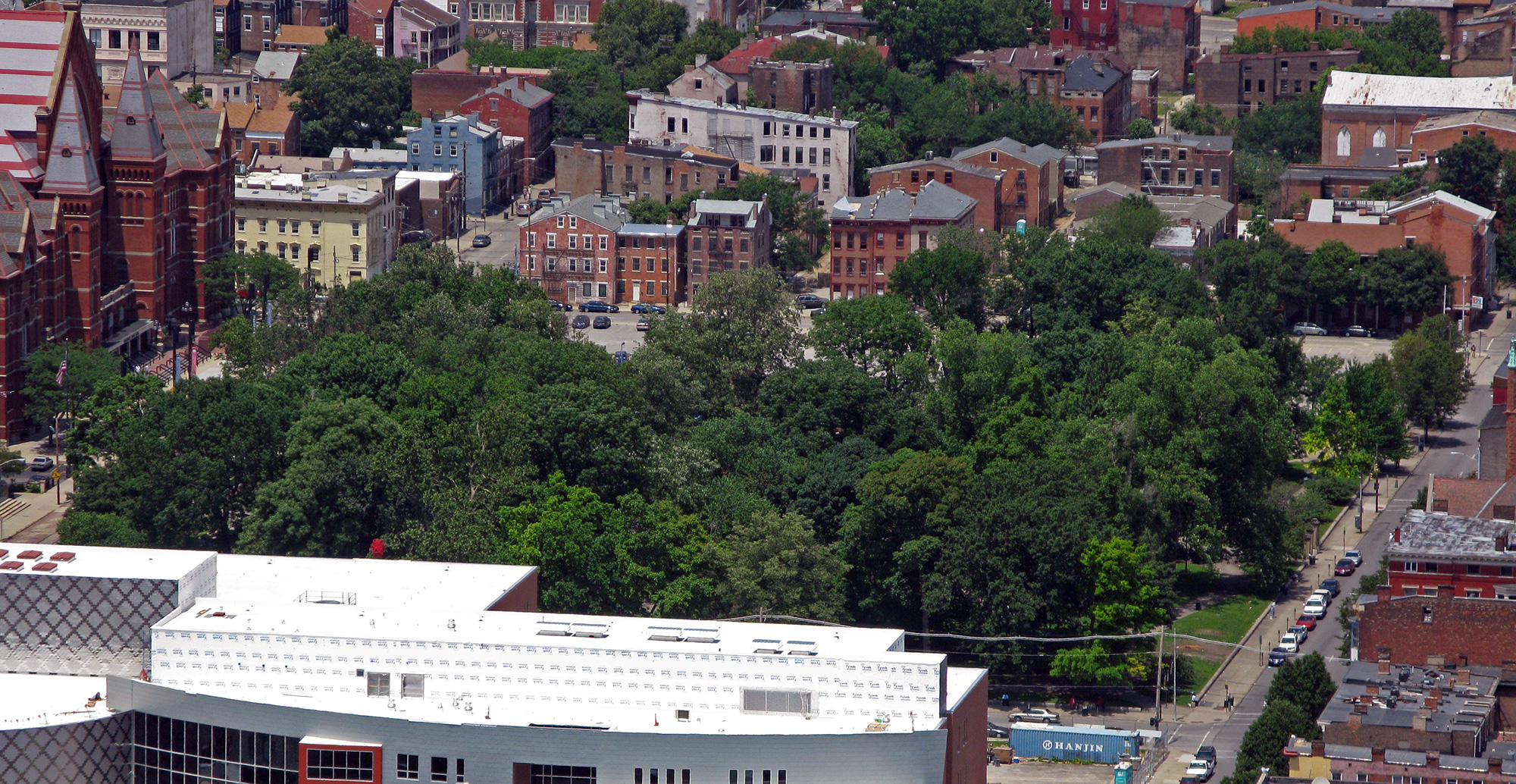 Washington Park in Cincinnati, Ohio.